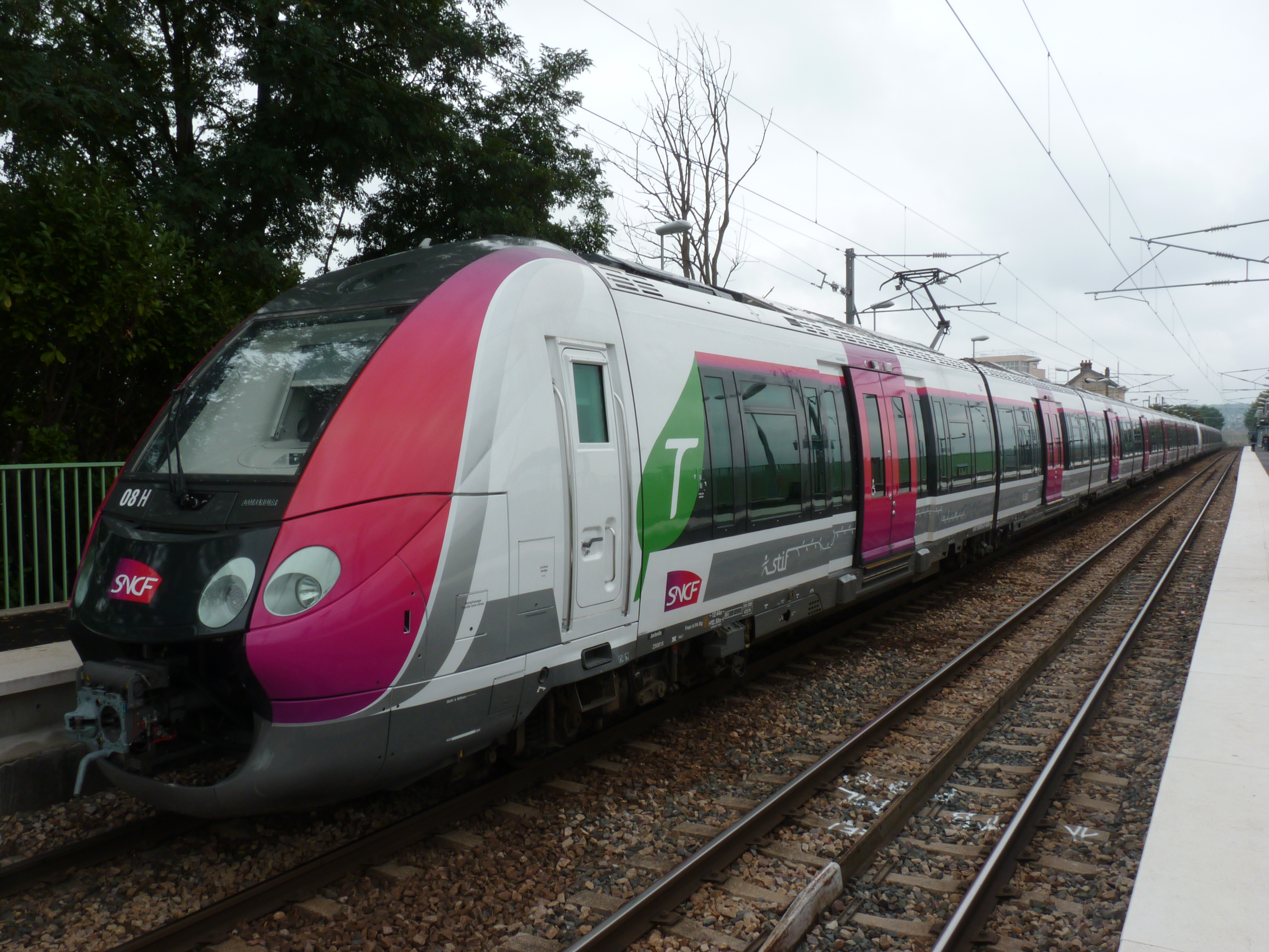 The SNCF Z 50015/16 at Bouffémont-Moisselles station.